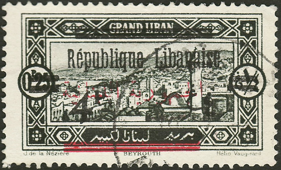 Stamp of Lebanon (Republic of Lebanon under French mandat, 1926-1941); 1928; definitive stamp of the issue "Lebanese landscapes" from 1925 ("Grand Liban") with twofold overprint; framed drawing with view to Beirut (French: "Beyrouth"); first overprint (1927, black): new country name "République Libanaise" and fessed old names as well as new value and fessed old value numbers; second overprint (1928, red): additional country name in Arabic letters and double-fessed old name in Arabic letters; stamp postmarked Stamp: Michel: No. 127; Yvert et Tellier: No. 104 Color: olive black with black and red overprint Watermark: none Nominal value: 4 P. on 0.25 P. (Piasters) Postage validity: from 4 May 1928 until 8 November 1943 Stamp picture size (printed area without signature line but with nominal value circles): 36.5 x 20.0 mm